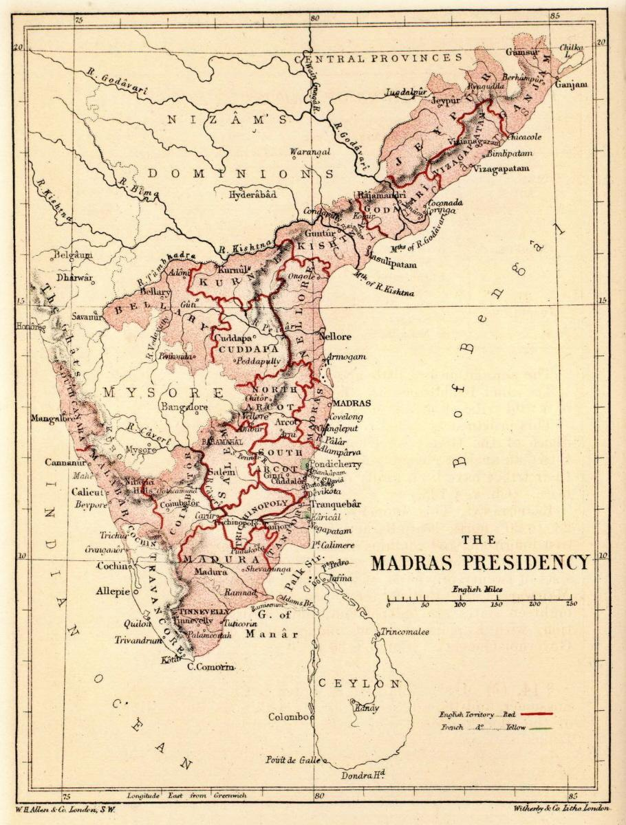 Map of "Madras Presidency" from Pope, G. U. (1880) Text-book of Indian History: Geographical Notes, Genealogical Tables, Examination Questions, London: W. H. Allen & Co. Pp. vii, 574, 16 maps. Scanned from personal copy and uploaded by Fowler&fowler«Talk» 20:58, 6 March 2009 (UTC)